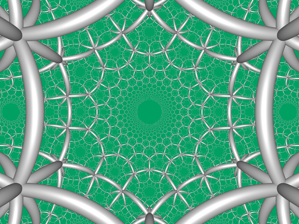 This is the regular {6,3,5} honeycomb in hyperbolic 3-space. The model is face-centered in the Poincare Ball model, with the viewpoint then placed at the ball boundary.